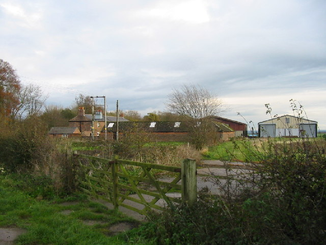 High Gardham Farm, High Gardham, East Riding of Yorkshire, England.Farm House and Farm Buildings, Cherry Burton Wold, East Riding of Yorkshire